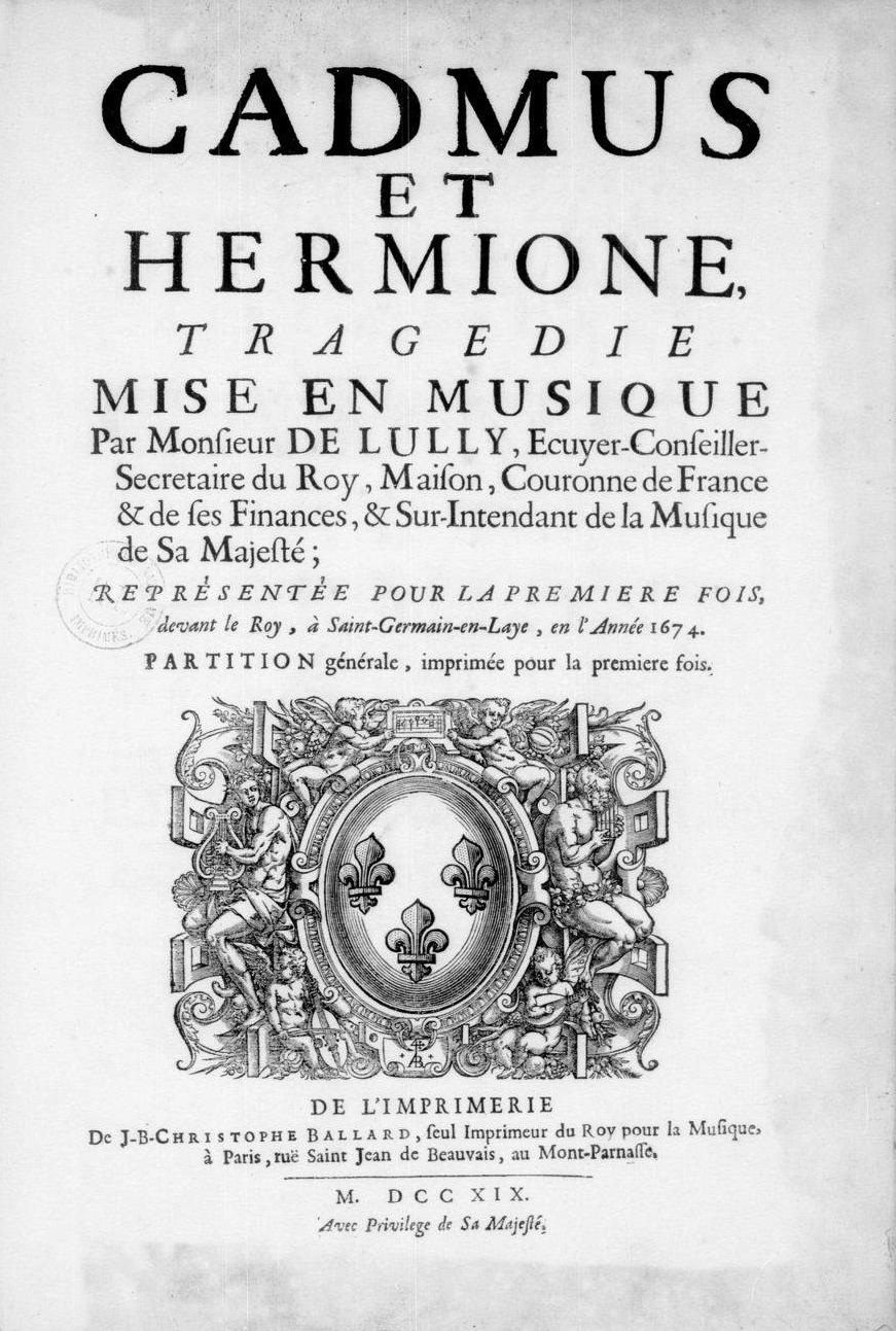 Title page of Cadmus et Hermione (the first French opera) by Jean-Baptiste Lully. Cadmus and Hermione, TRAGEDY SET TO MUSIC by Monsieur DE LULLY, Esquire-Adviser-Secretary of the King, House, and Crown of France and its Finances, and Superintendent of Music of Her Majesty; PRESENTED FOR THE FIRST TIME before the King at Saint-Germain-en-Laye, in the Year 1674. General EDITION, printed for the first time AT THE PUBLISHING HOUSE of J. B. Christophe Ballard, sole Music Printer for the King, in Paris, rue Saint Jean de Beauvais, in Mont-Parnasse. 1917. With the Permission of Her Majesty.